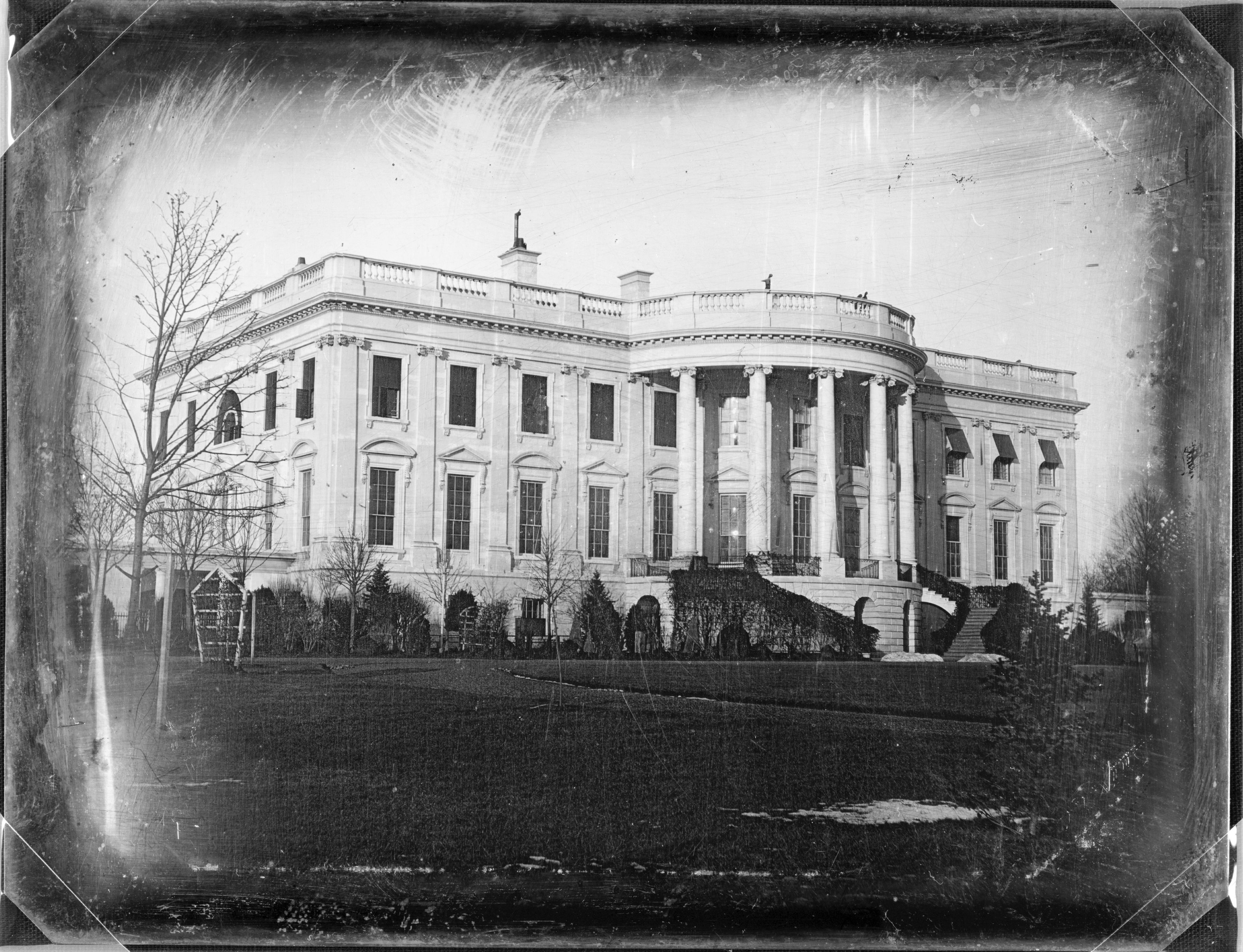 Daguerrotype of the south front of the White House